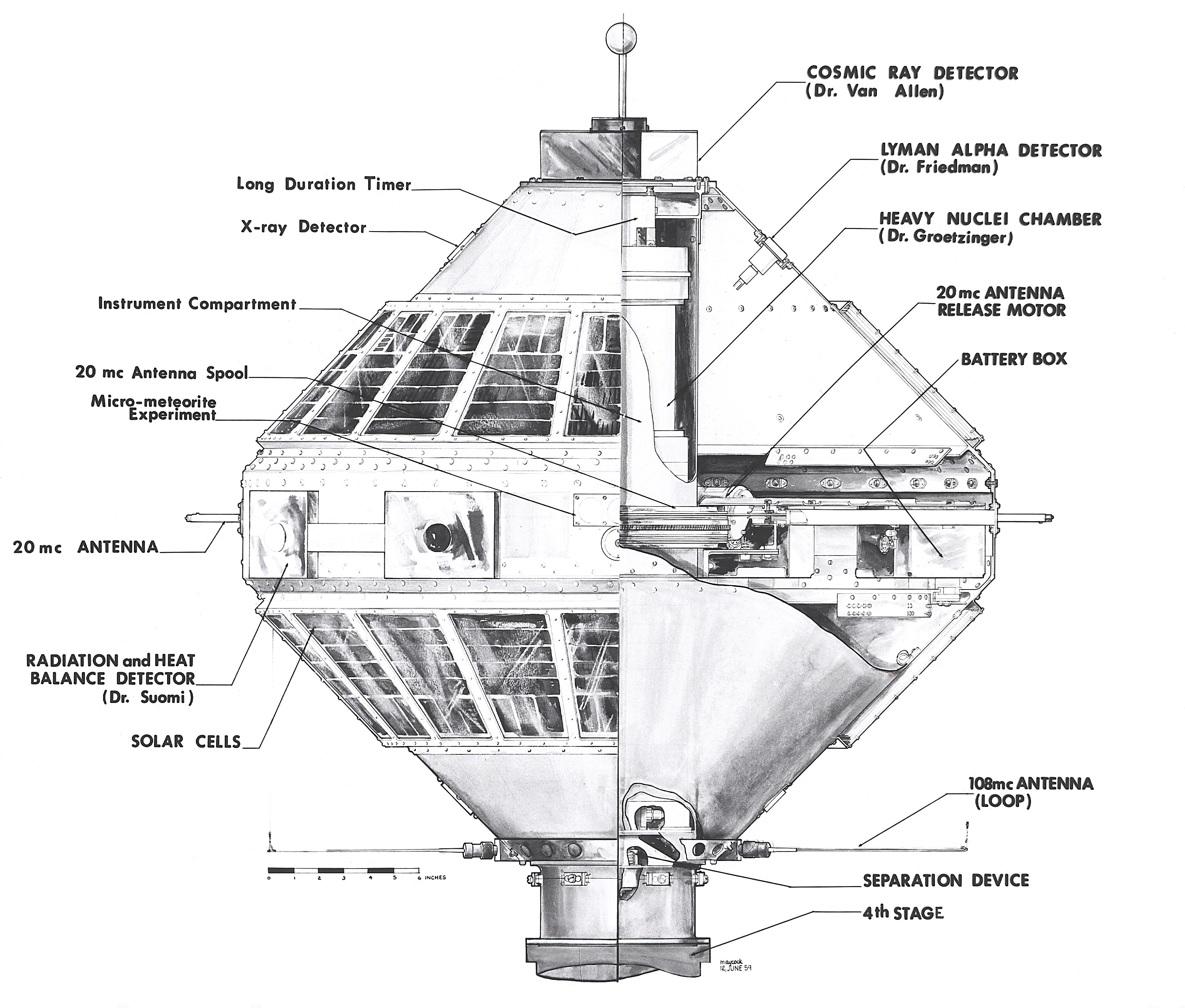 A Juno II launched an Explorer VII satellite on October 13, 1959. Explorer VII, with a total weight of 91.5 pounds, carried a scientific package for detecting micrometeors, measuring the Earth's radiation balance, and conducting other experiments.